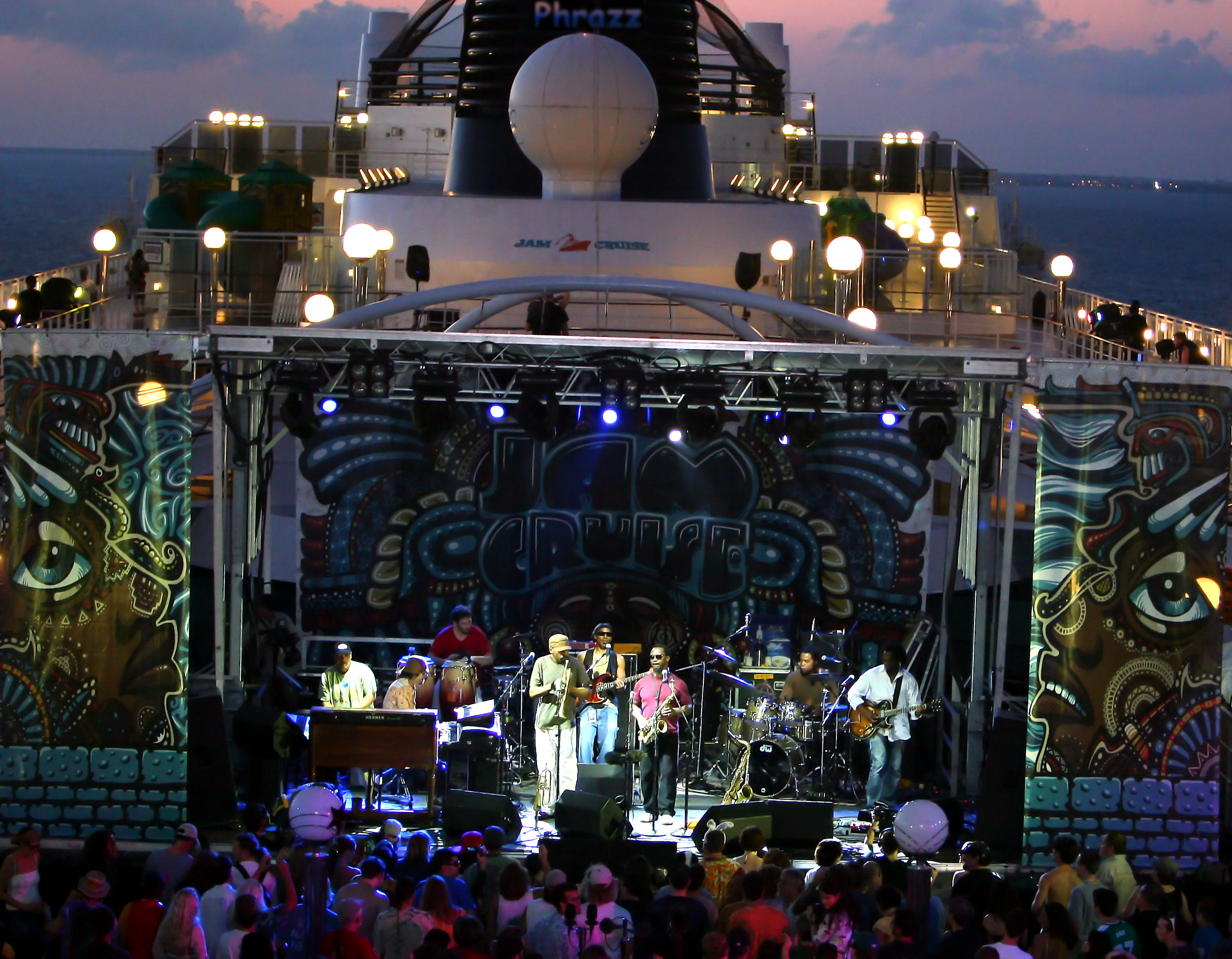 Karl Denson's Tiny Universe - Jamcruise 7 - MSC Orchestra